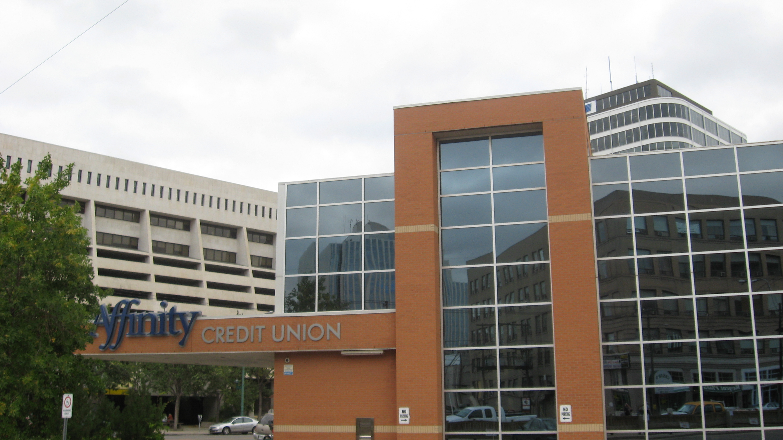 Saskatoon Credit Union (now Affinity CU), downtown branch. Shot Aug 2008. Sturdy-Stone Building to left, former Toronto Dominion Bank building behind.